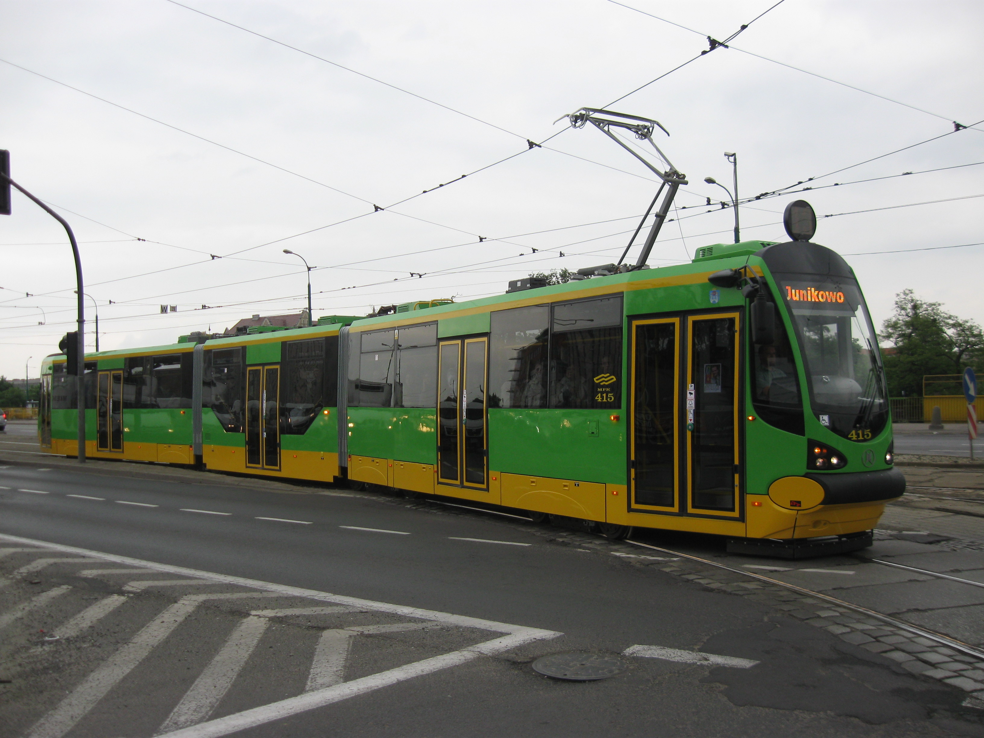 Tram Moderus Beta MF 02 AC (#415) in Poznań turning from Roosvelta Street to Bukowska Street and going to "Bałtyk" stop. The first day of the operation of this type of tram.